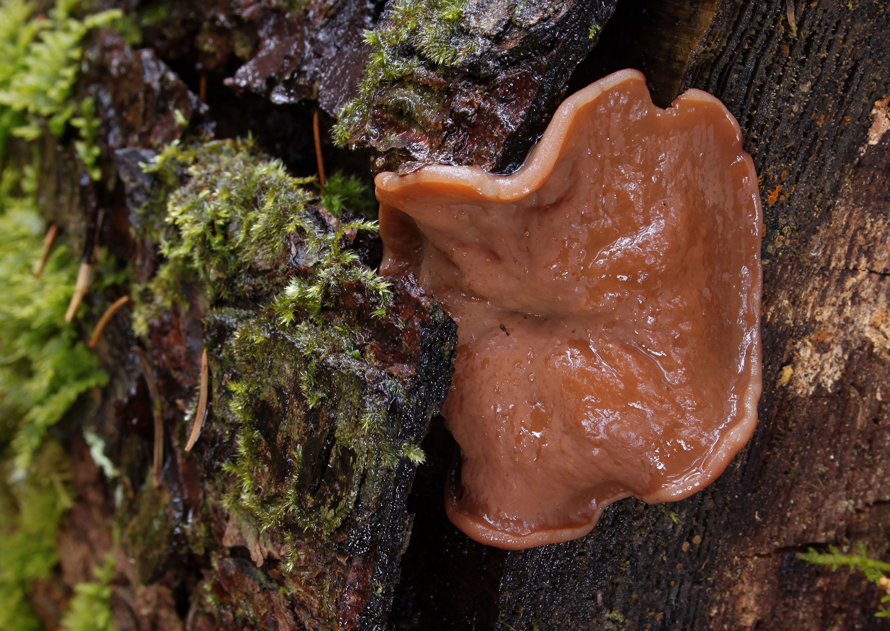 Discina ancilis (syn.: Gyromitra ancilis, Acetabula ancilis or Peziza ancilis), Family: Discinaceae, Location: Germany, Ulm, Eggingen. Nomenclature: MycoBank, fungal database.